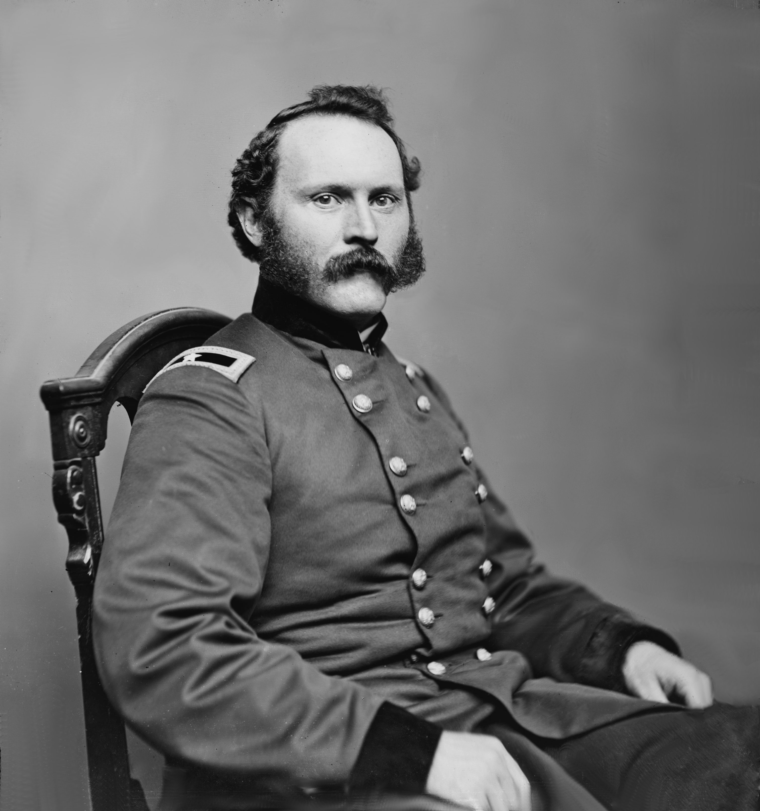 Joseph Bradford Carr. Library of Congress description: "Gen. Joseph Bradford Carr, U.S.A."